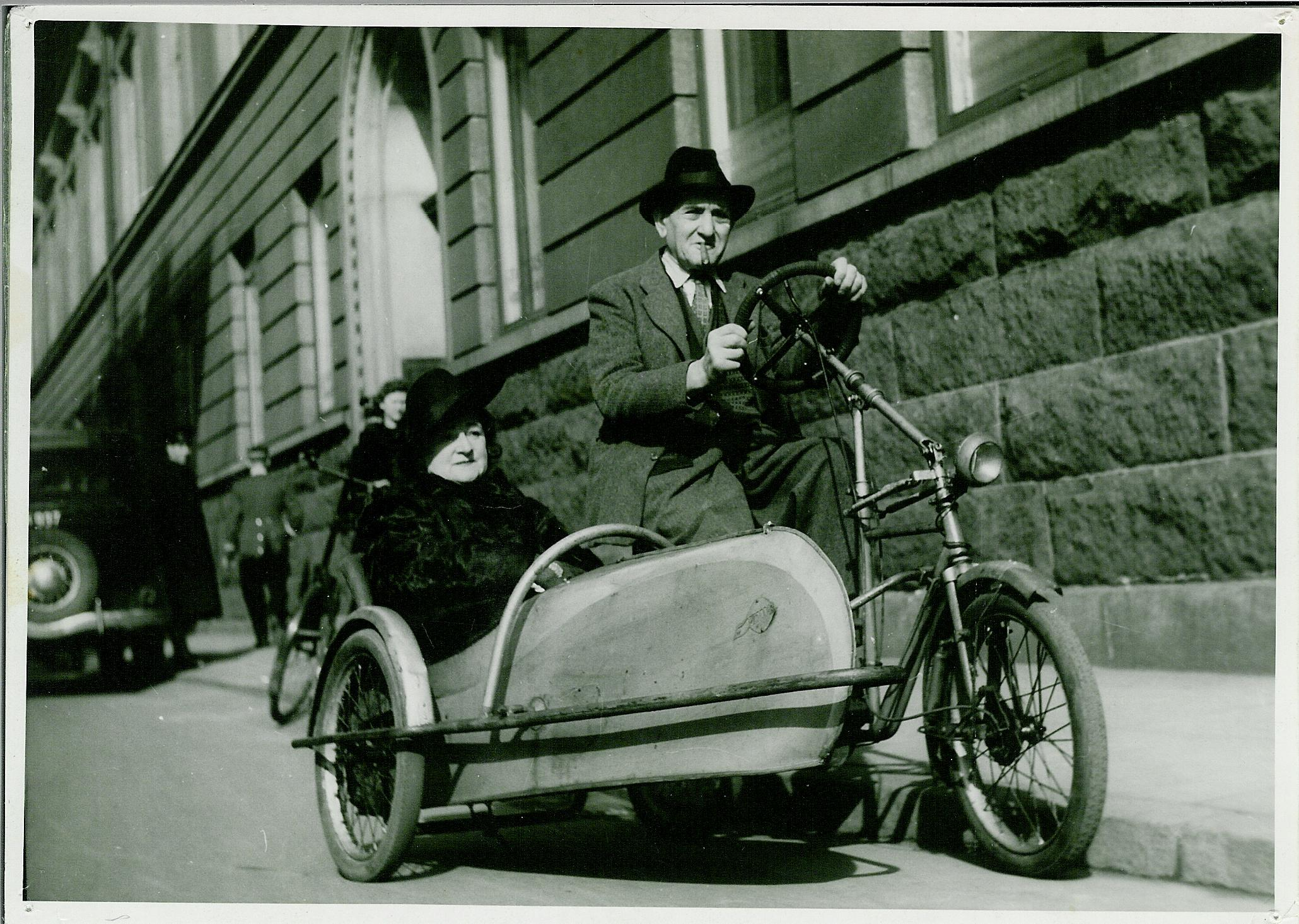 More images from The Museum of Danish Resistance